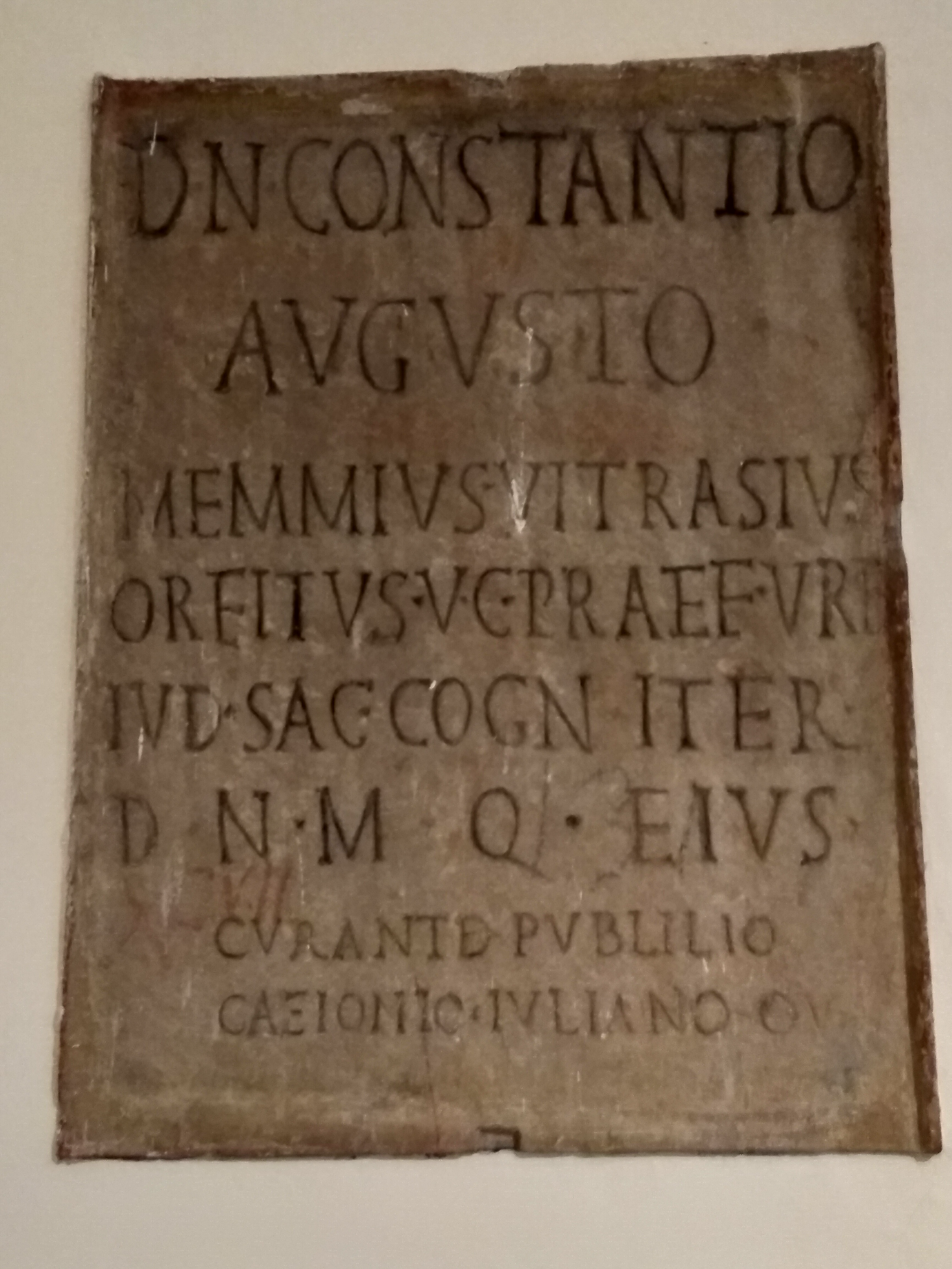 Inscription for a statue in honour of Constantius II CIL 06, 01159a CIL 14, 00461